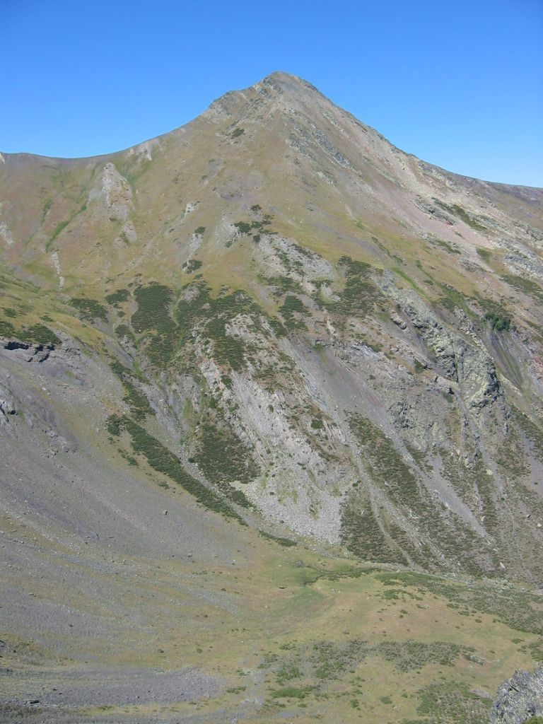 View of Peak Murcia (2349 meters) from Cerro del Sillar (Mountains of Palencia, Castile and León)